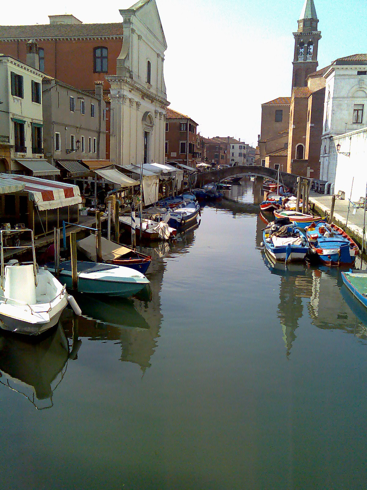 Chioggia